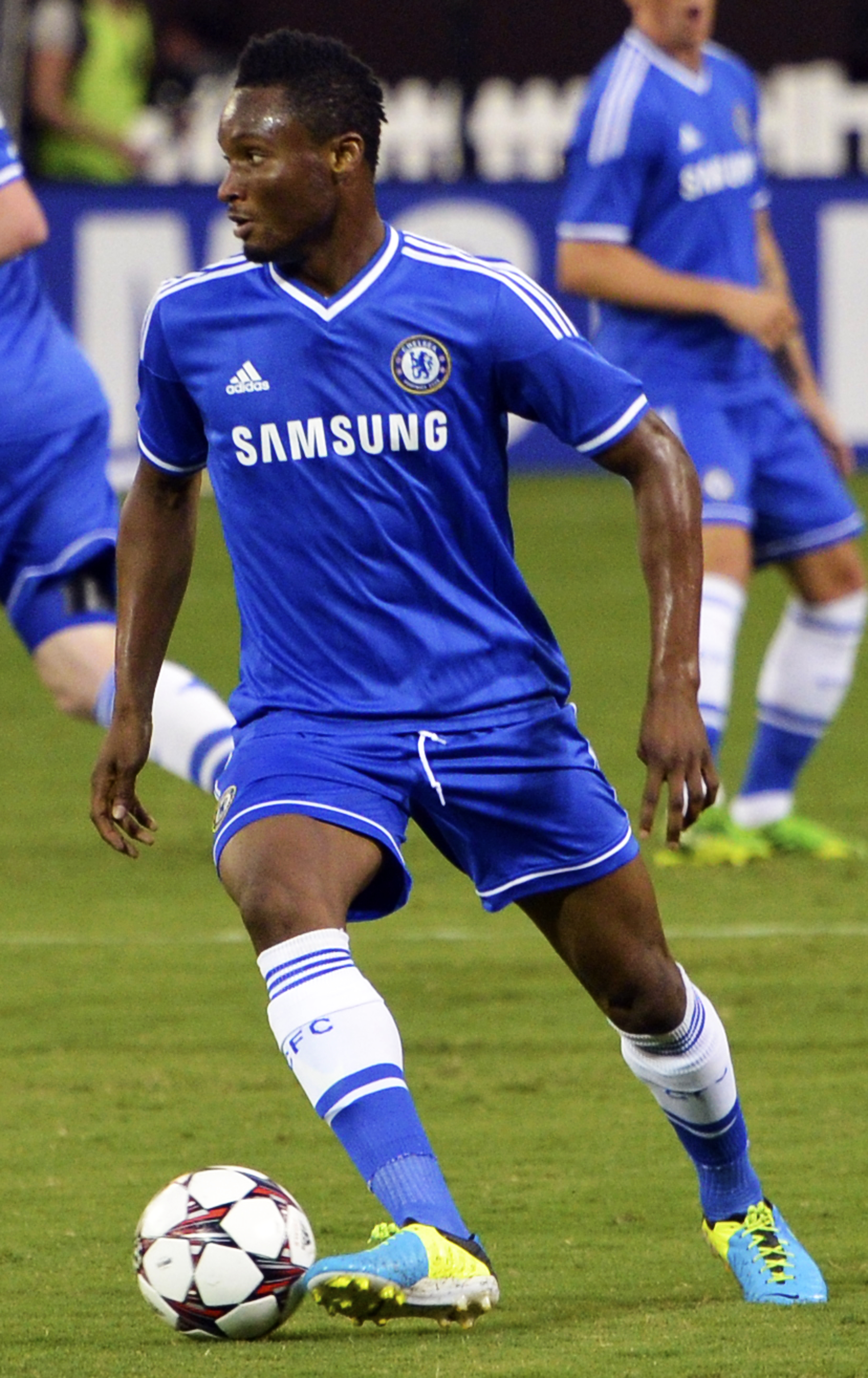 John Obi Mikel of Chelsea FC playing against A.S. Roma in a friendly in August 2013. Game was played in Robert F. Kennedy Memorial Stadium in Washington D.C.